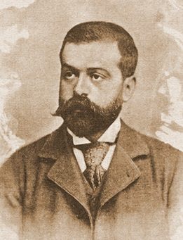 Rinaldo Piaggio